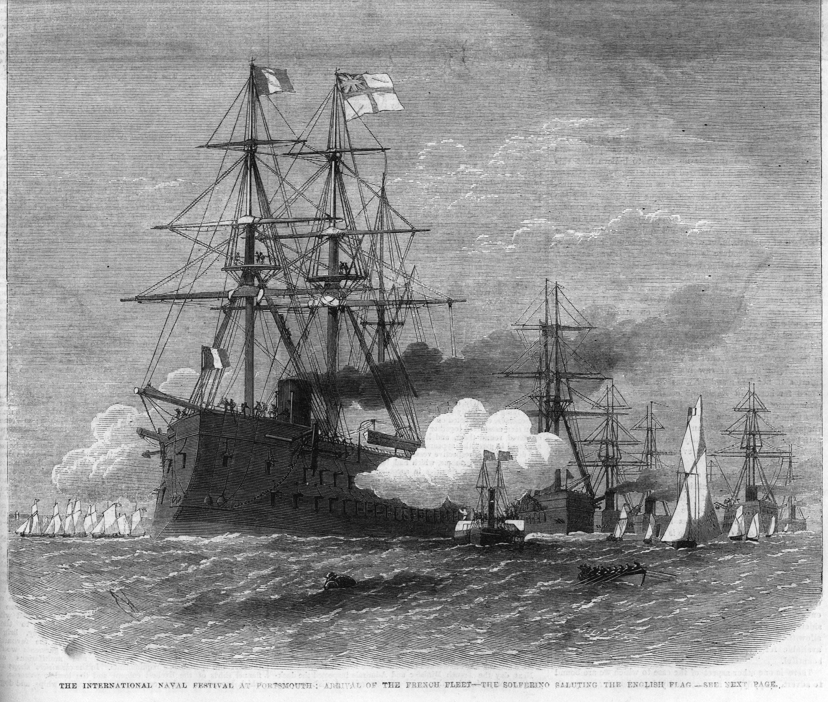 French Ironclad Solferino entering Portsmouth Harbour in 1866